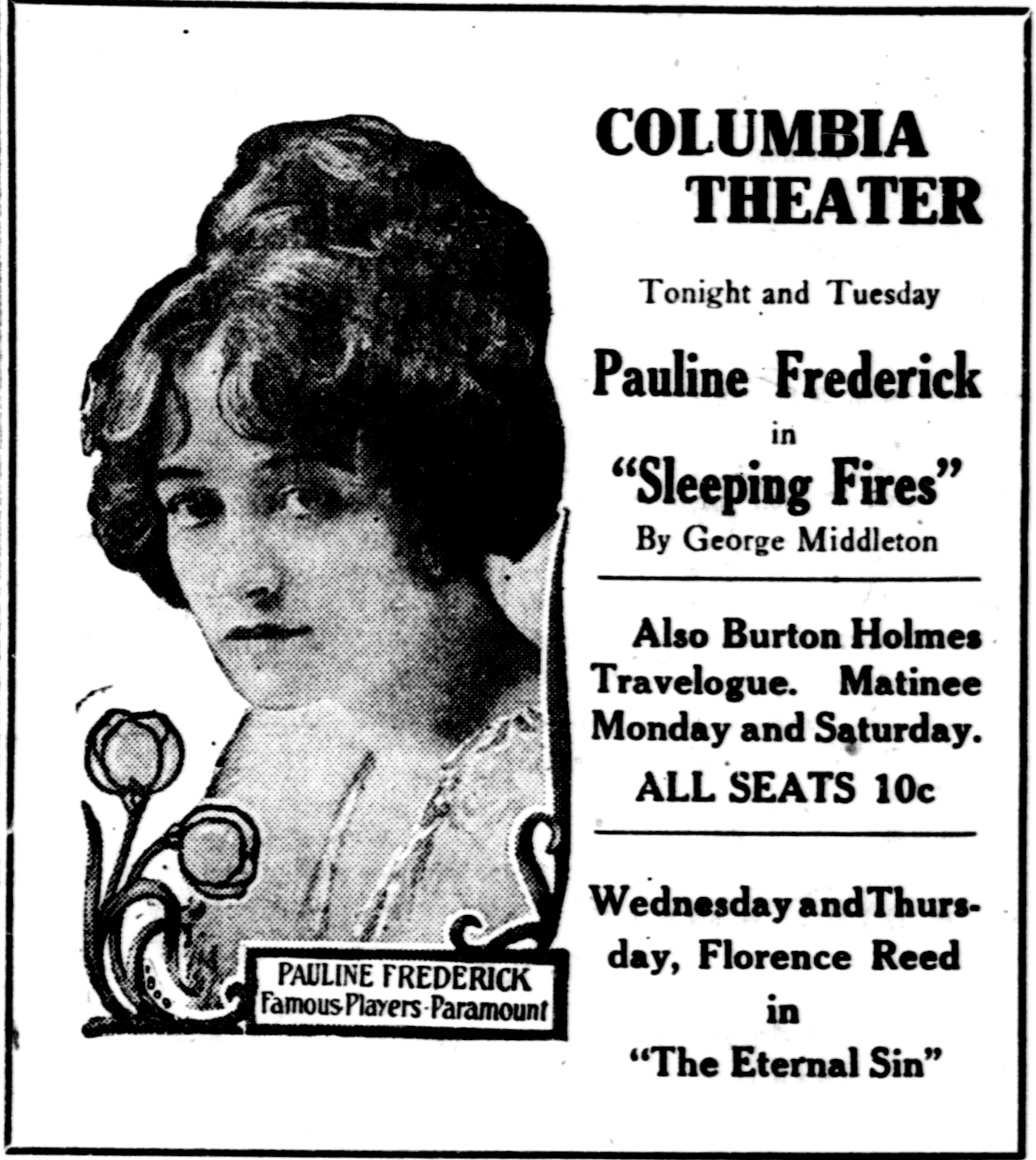 Sleeping Fires (1917) is a silent film drama produced by Famous Players-Lasky, distributed by Paramount Pictures. This is a newspaper advertisement for the film.